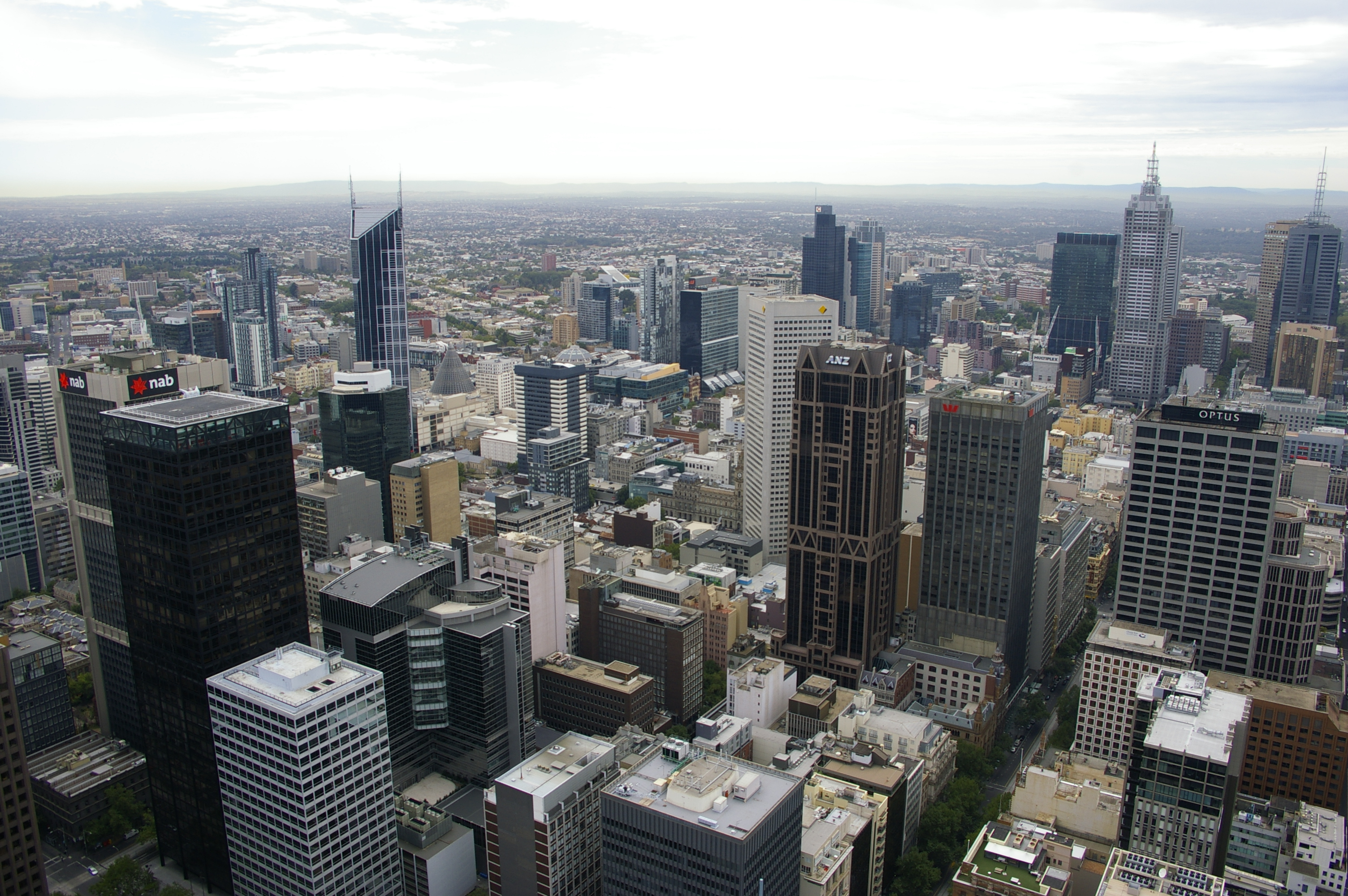 Melbourne Central Business District.